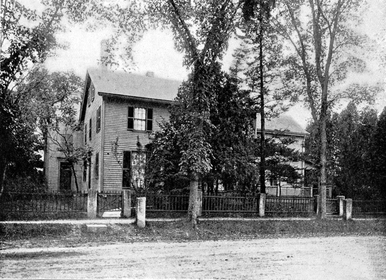 House belonging to family of Henry David Thoreau in Concord, Massachusetts. HDT died here in 1862.